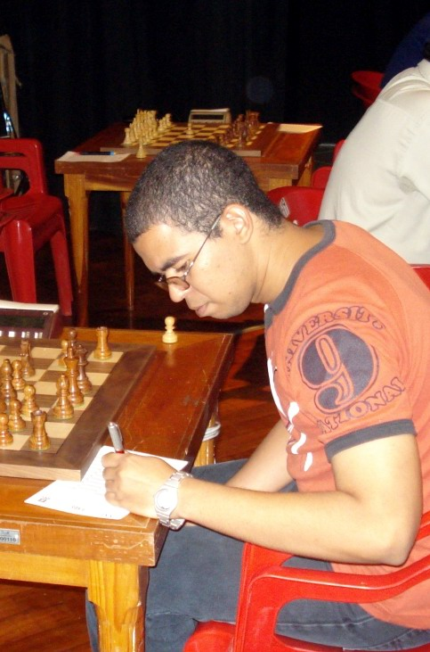 GM Neuris Delgado Ramirez Cuba, Merida 2008.